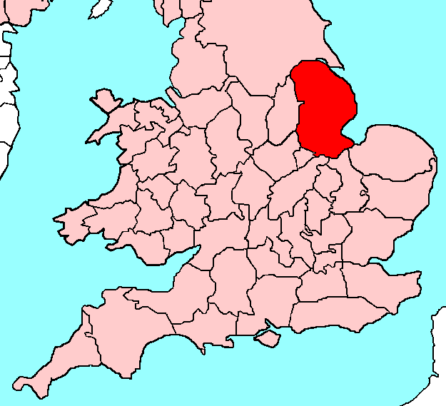 Lincolnshire